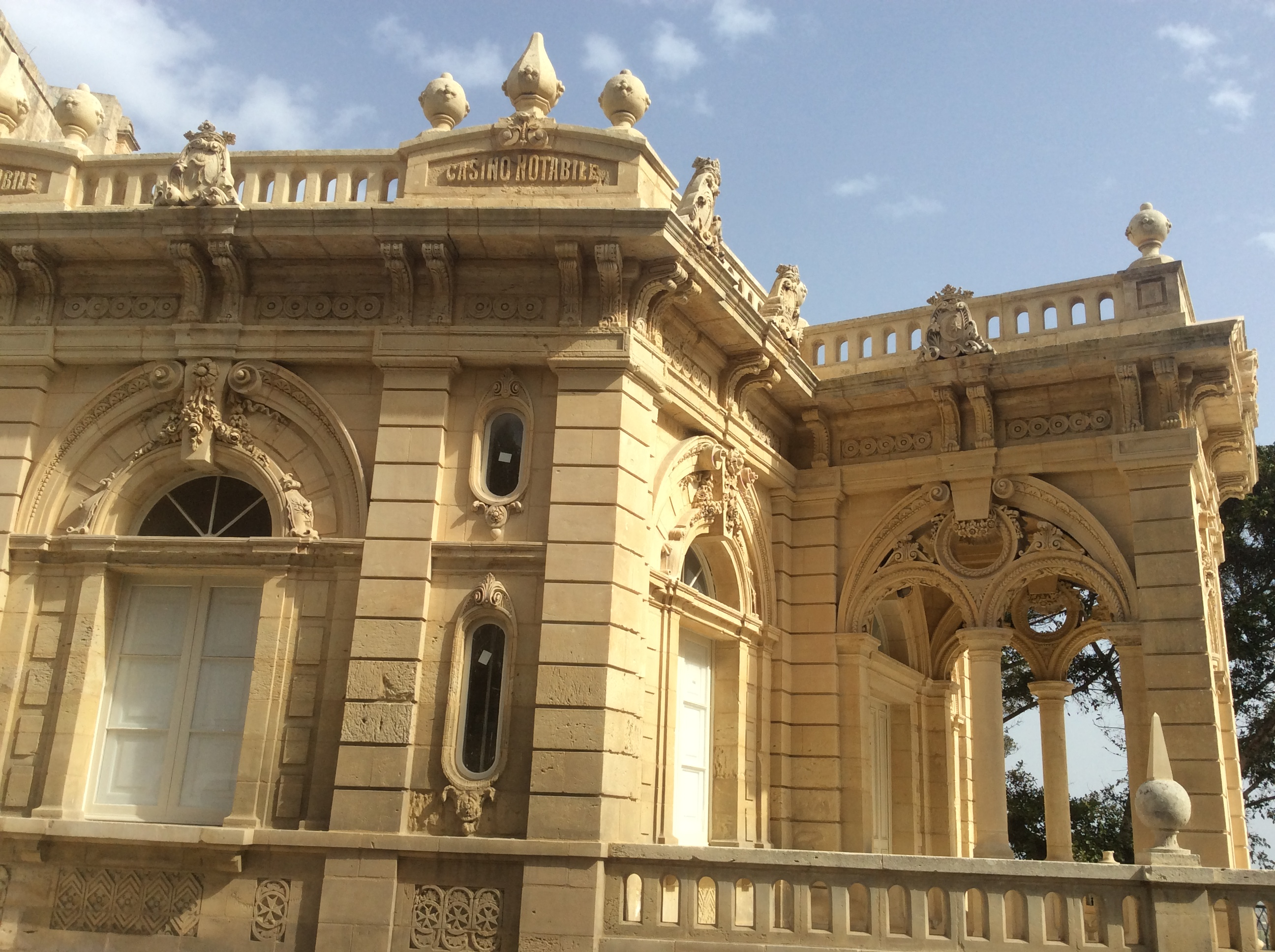 Rabat This media is about Maltese cultural property with inventory number 01444.